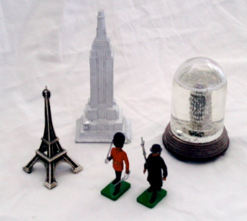 Souvenirs from around the world. Clockwise from top, Empire State Building, New York City, New York, USA; Leaning Tower of Pisa, Pisa, Italy; Buckingham Palace Guards, London, United Kingdom; Eiffel Tower, Paris, France.